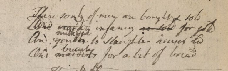 Blake manuscript - Notebook 28-c - The Human Image